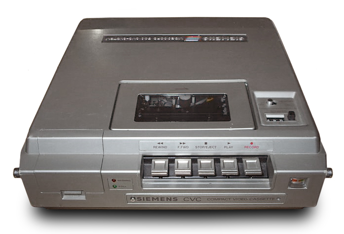 Siemens CVC (Compact Video Cassette) recorder from 1980